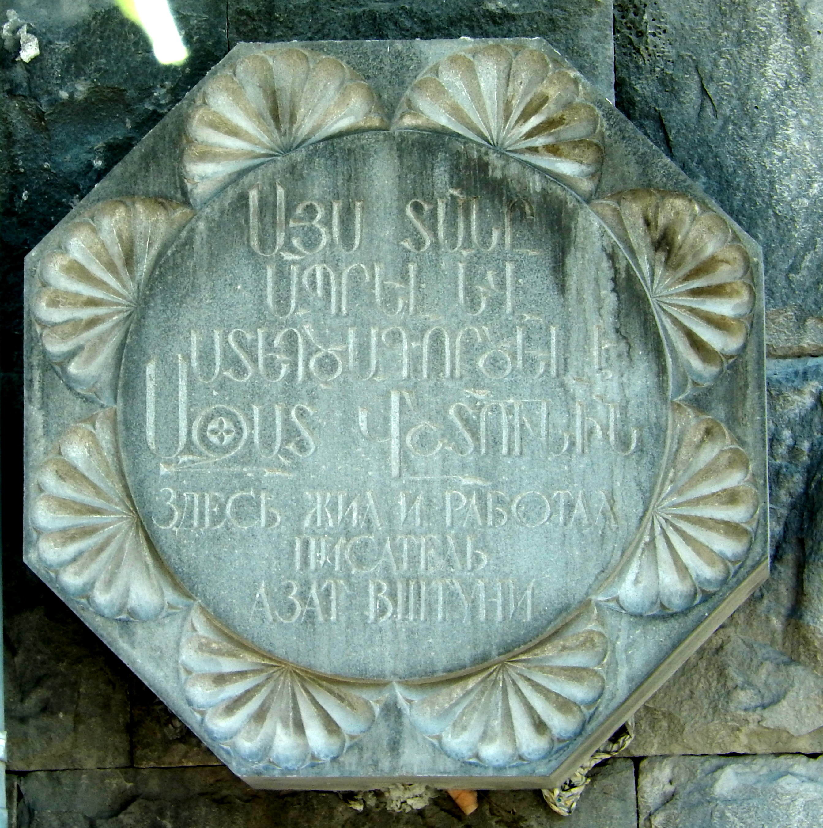 Azat Vshtuni plaque